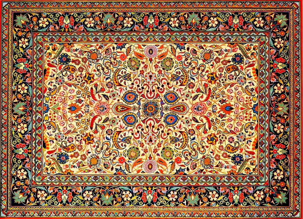 Afshan rug, Tabriz school Azerbaijani carpets, XVIII c.